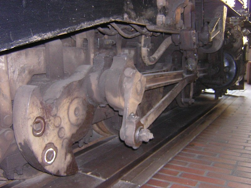 Driving axle of a SAR Class NGG 13 Garratt